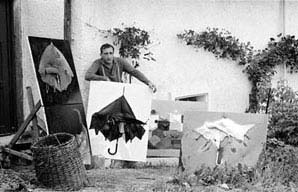 Zadeusz Kantor